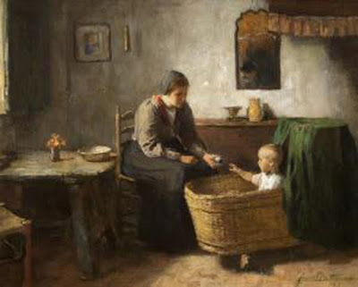 Peasant Woman with Baby in Crib